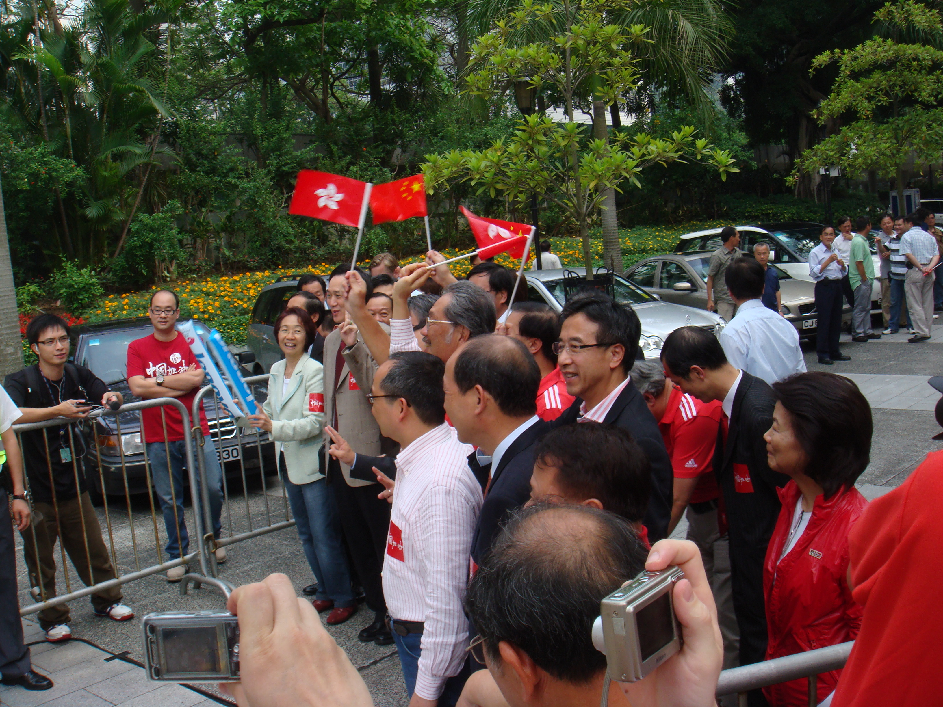 2008 Summer Olympics Torch in the Legislative Council, Central, Hong Kong.